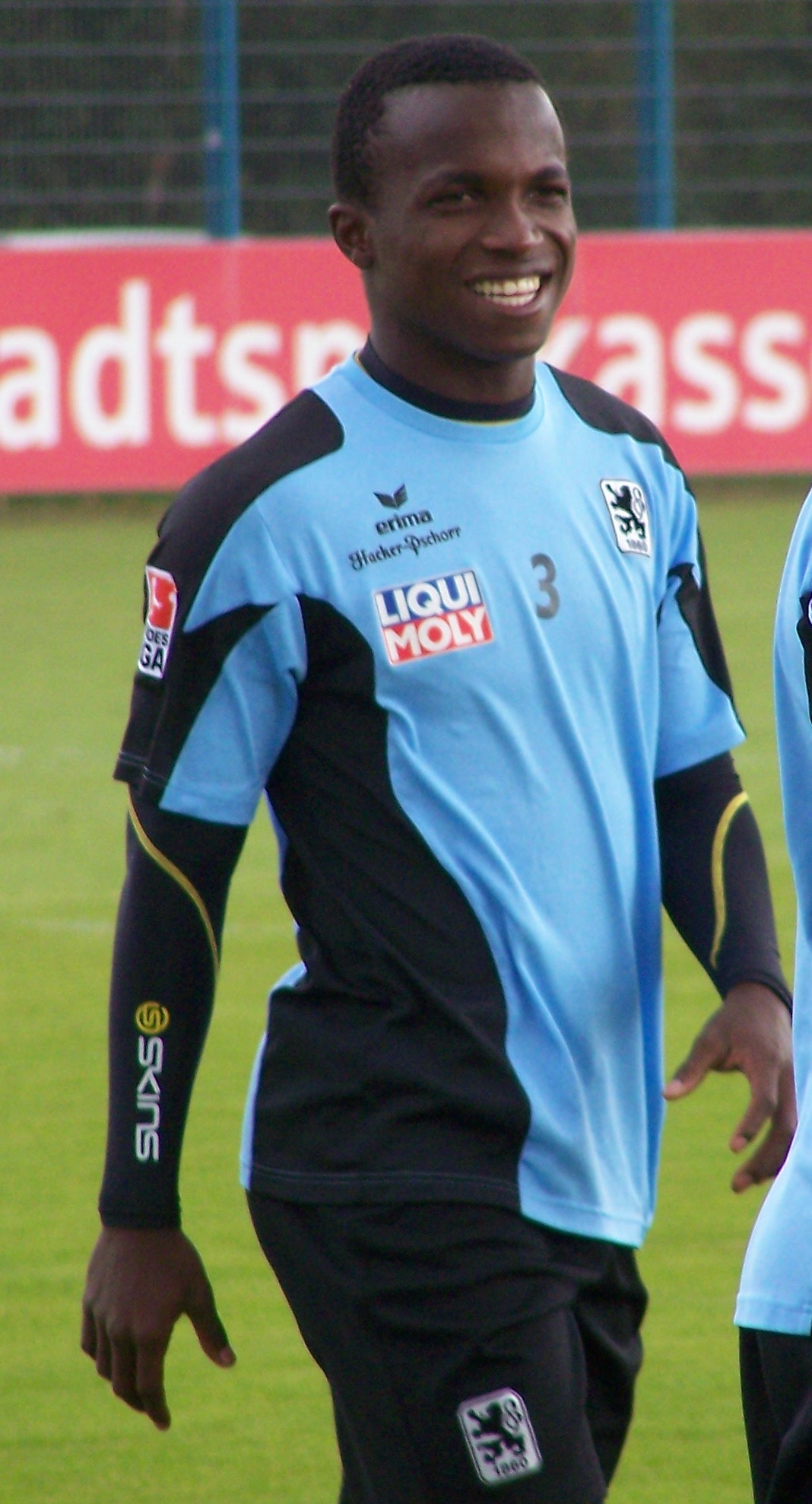 Marcos Antonio, 1860 munich, training